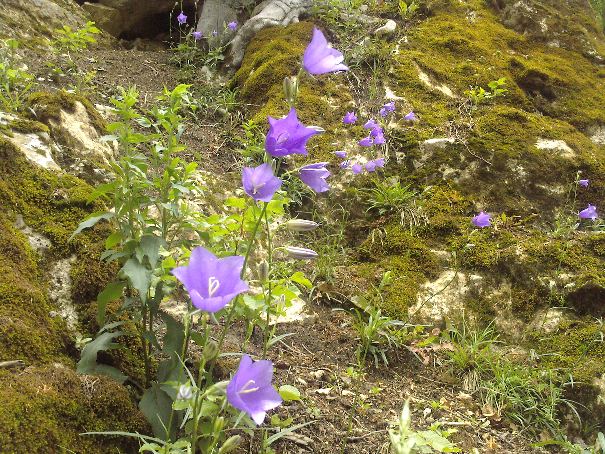 Campanula carpatica (Carpathian harebell, tussock bellflower) in Piatra Mare